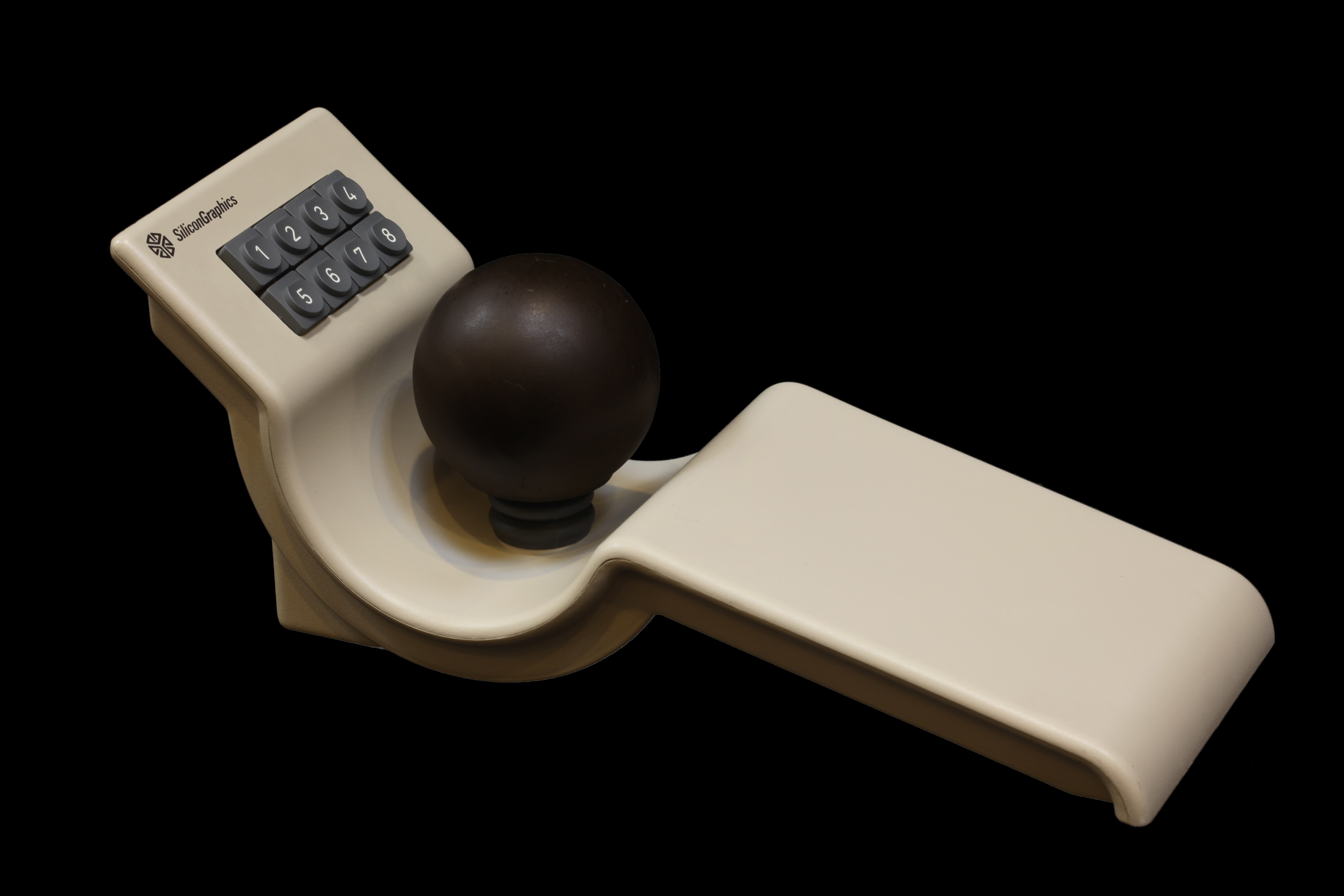 Silicon Graphics SpaceBall model 1003 (1988), allowing manipulation of objects with 6 degrees of freedom. On display at the Musée Bolo, EPFL, Lausanne.